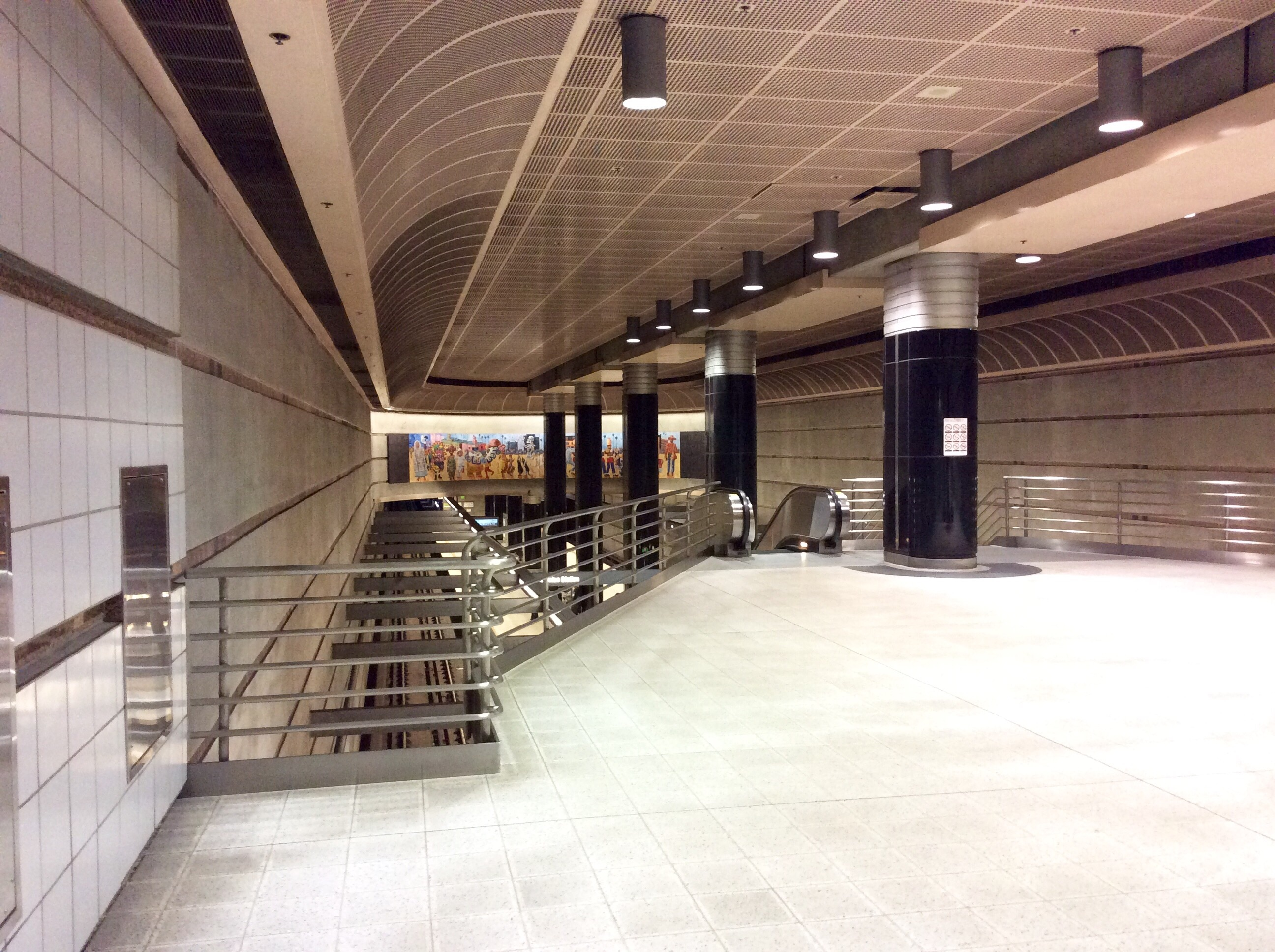 The upper floor view of Wilshire/Normandie Station.